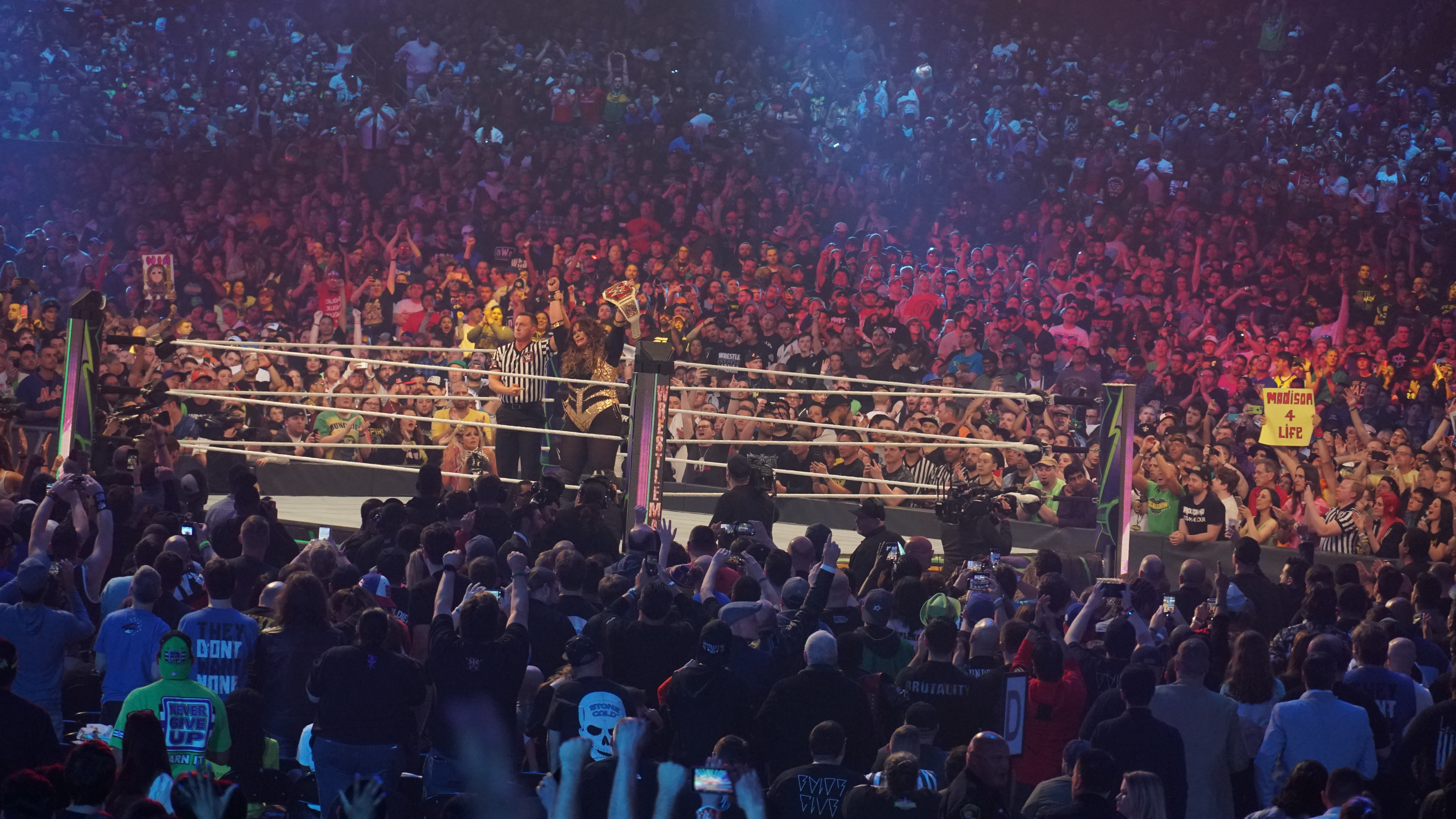 Nia Jax after winning the WWE Raw Women's Championship at WrestleMania 34.